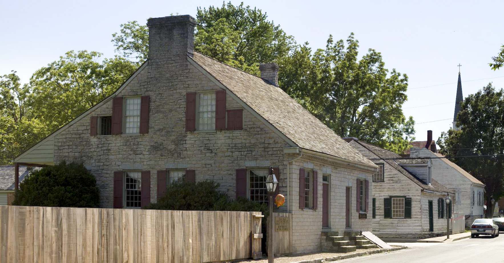 This is a 2007 photograph of the front of the Felix Vallee House in Ste. Geneviève, Missouri. It was built by Samuel Phillipson, an early settler, and in 1823 it was sold to Felix Vallé. To the right of the house is the Dr. Benjamin Shaw House. To the right of that is the Dufour House. The spire in the background is The Church of Ste. Geneviève.